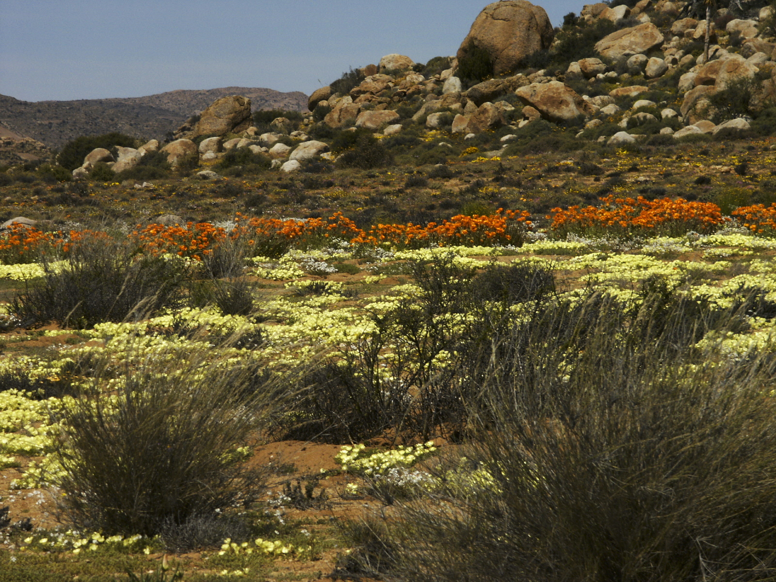 Daisys, Desert in the spring, flowering Desert, Namaqualand, Goegap Nature Reserve, Northern Cape, South Africa